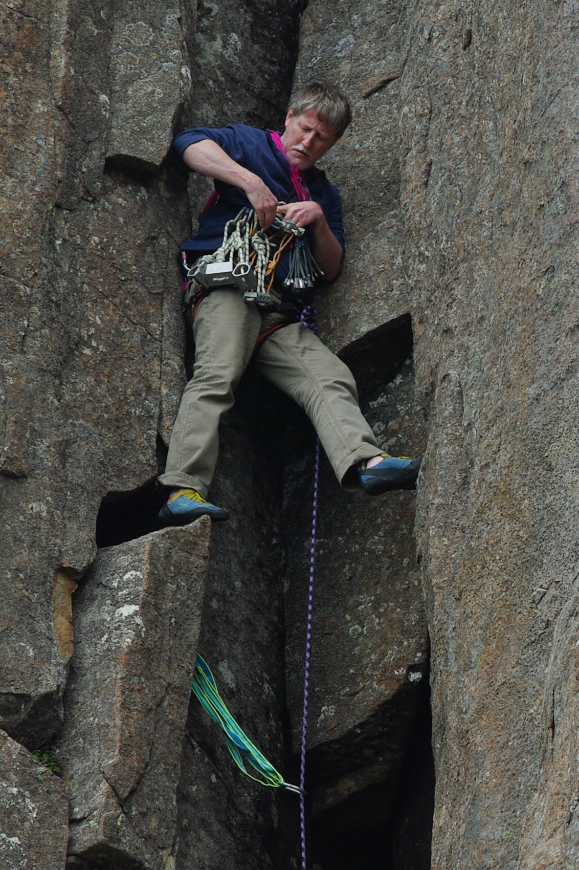 Lyle Closs, Pulpit Chimney February 2010